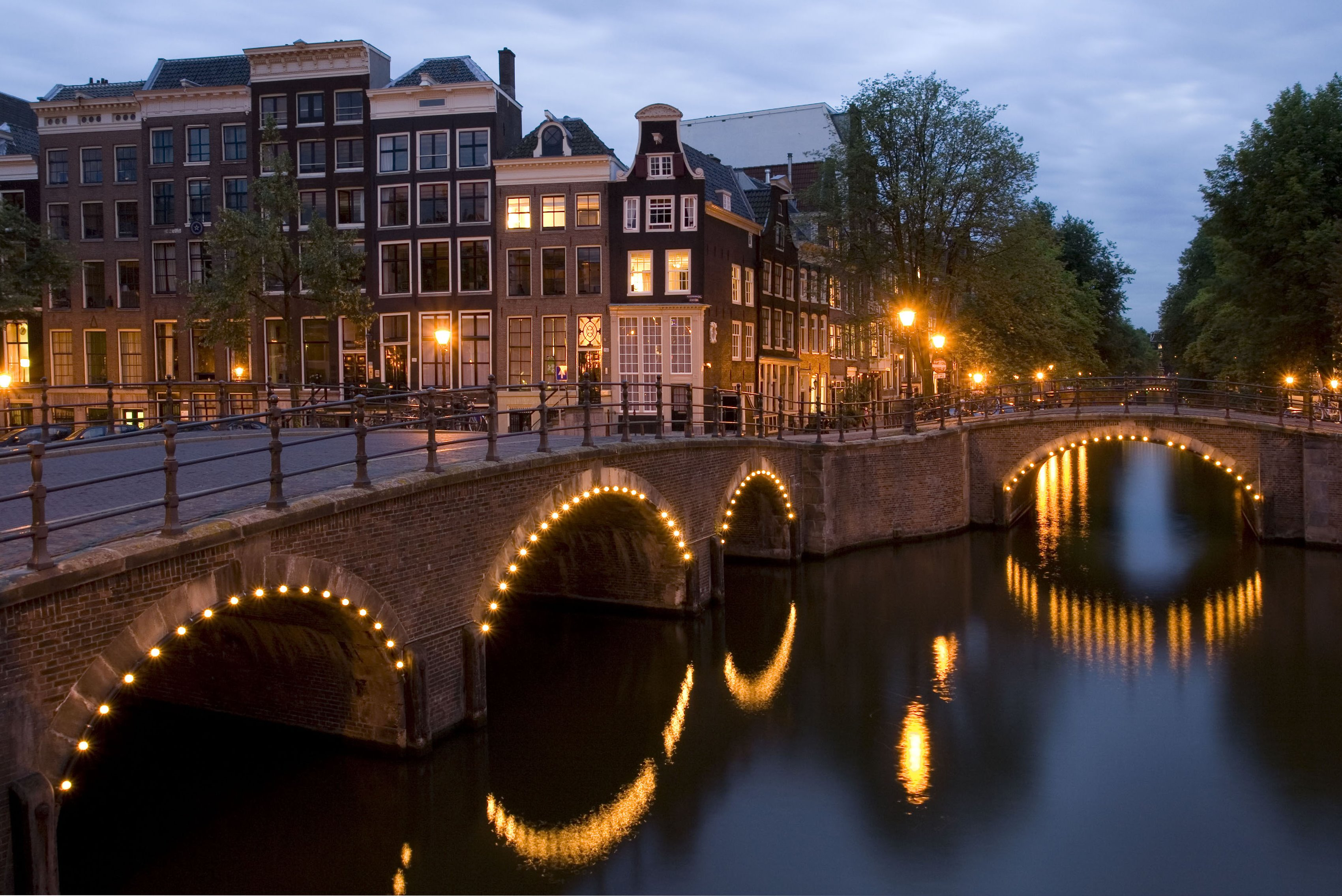 A view of the Reguliersgracht on the corner with the Keizersgracht, in Amsterdam, The Netherlands at dusk.